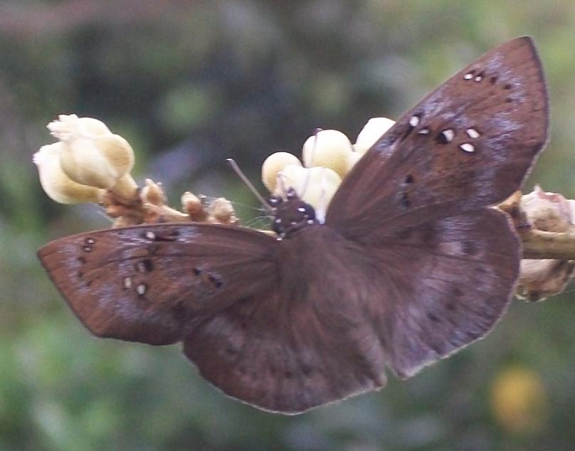 Tagiades flesus from Pipeline Coastal Park, Amanzimtoti. This is the same individual as seen here